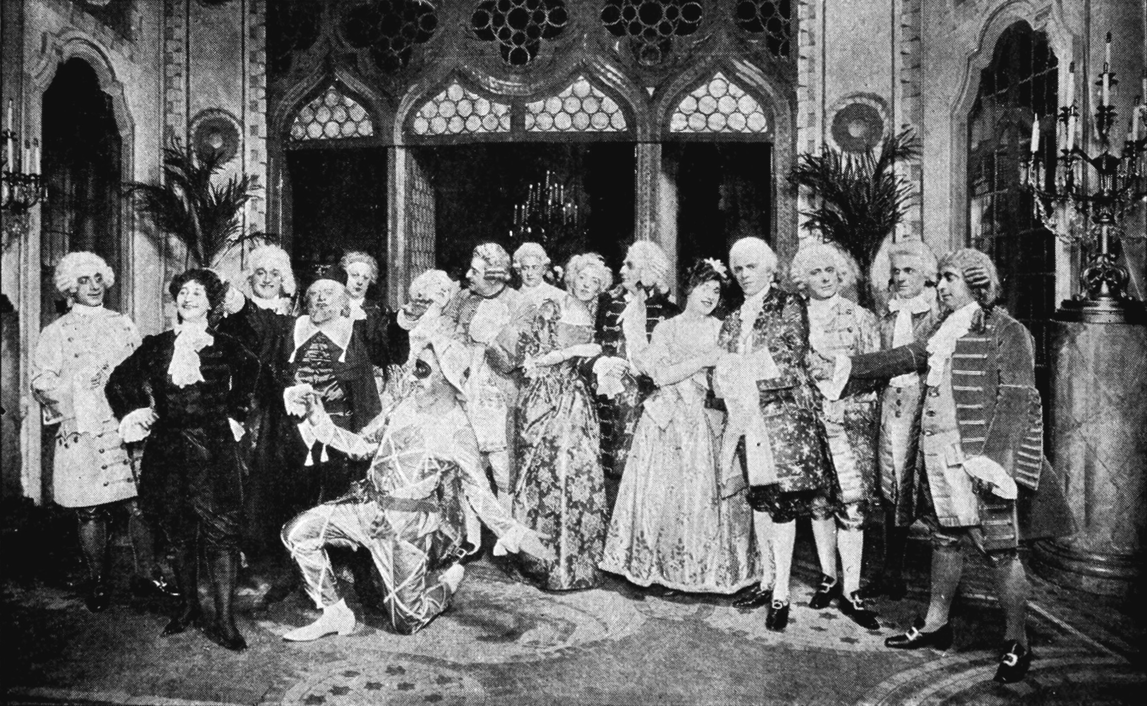 Wolf-Ferrari - Le donne curiose, act III - Scene - White, N. Y. Title: The Victrola book of the opera : stories of one hundred and twenty operas with seven-hundred illustrations and descriptions of twelve-hundred Victor opera records Year: 1917 (1910s) Authors: Victor Talking Machine Company Rous, Samuel Holland Subjects: Operas Publisher: Camden, N.J. : Victor Talking Machine Co. Text Appearing Before Image: Over the door of the club may be seenthe motto, No Women Admitted. Eachwoman has her own theory as to the doingsbehind closed doors, and they seek in variousways to gain an entrance. In reality the menare enjoying themselves with simple masculinepleasures, and chuckling over the intense curiosityof their wives and sweethearts. With the help of Colombina and Arlecchino,and by luring the keys from the pocket ofone of the members, the ladies finally succeedin making an entrance within the sacred walls,and are surprised to find the men enjoyingthemselves harmlessly at dinner. On being dis-covered by the husbands they are forgiven, andthe evening ends happily with a merry dance. The Victor offers an air from Act II—the loveduet of Rosaura and Florindo, sung after the formerhas induced her fiancee to give her the keys. II cor nel contento (My Heart,How it Leaps in Rejoicing) By Geraldine Farrar and Herman Jadlowker (Italian) 88359 12-inch, $3.00 FARRAR AND JADLOWKERAS ROSAURA AND FLORINDO Text Appearing After Image: SCENE FROM ACT III J 7